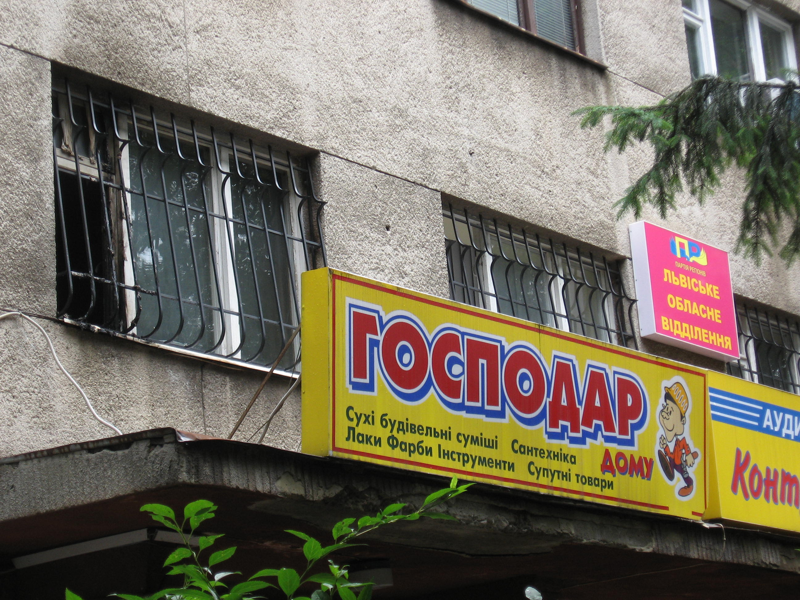 Office of Party of Regions in Lviv oblast burnt supposedly by orange rivals of the party